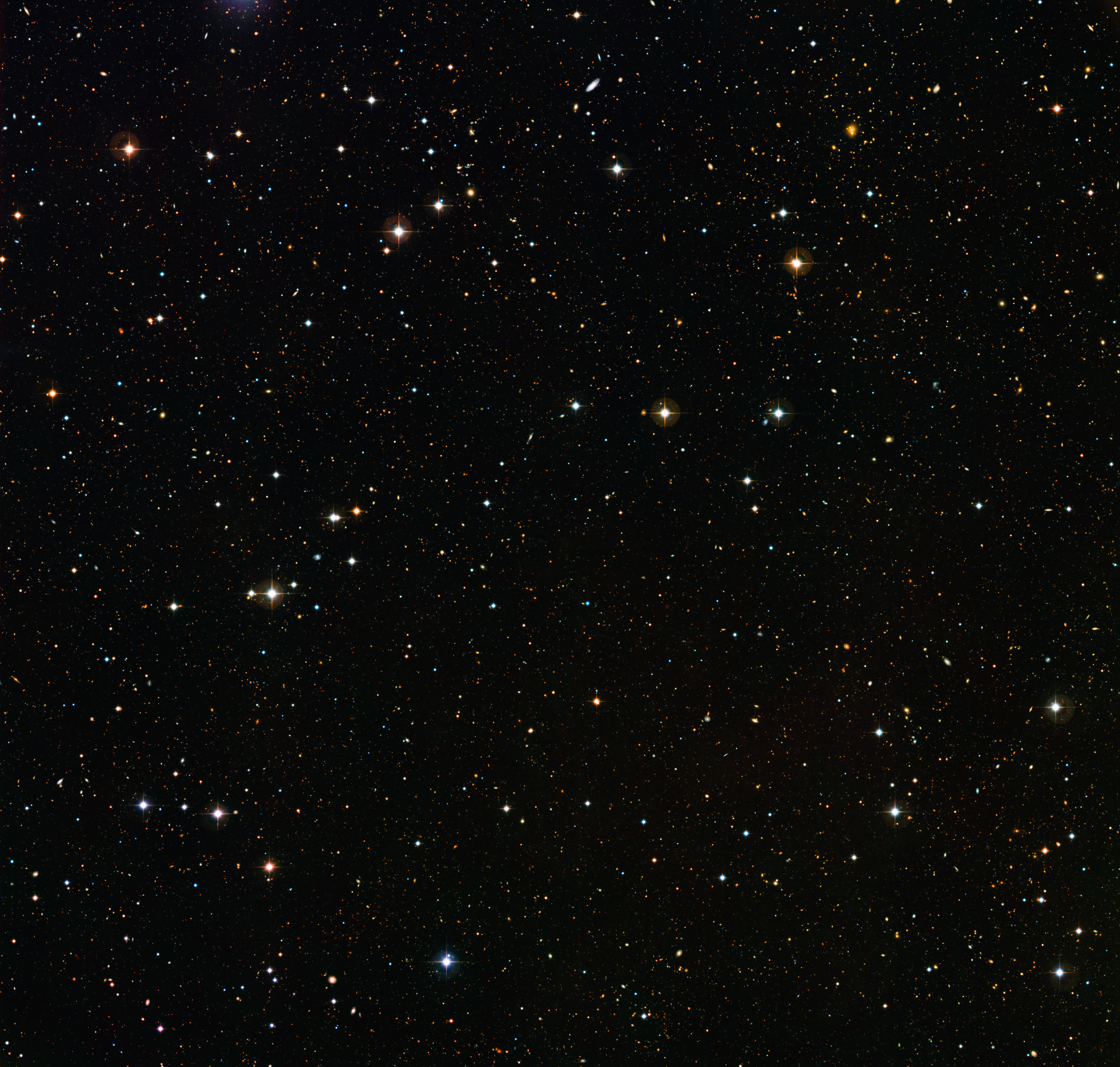 Can you count the number of bright dots in this picture? This crowded frame is a deep-field image obtained using the Wide Field Imager (WFI), a camera mounted on a relatively modestly sized telescope, the MPG/ESO 2.2-metre located at the La Silla Observatory, Chile. This image is one of five patches of sky covered by the COMBO-17 survey (Classifying Objects by Medium-Band Observations in 17 filters), a deep search for cosmic objects in a relatively narrow area of the southern hemisphere's sky. Each one of the five patches is recorded using 17 individual colour filters. Each one of the five COMBO-17 images covers an area of the sky the size of the full Moon. The survey has already revealed thousands of previously unknown cosmic specimens — over 25 000 galaxies, tens of thousands of distant stars and quasars previously hidden from our view, showing just how much we still have to learn about the Universe. Some of the most distant flecks of light visible in this photo are galaxies whose light has been travelling for nine or ten billion years before reaching to us. By studying galaxies of different ages astronomers can understand how they evolve in time, from mature nearby galaxies similar to our galaxy, the Milky Way, to young ones in the distant Universe that reveal what the cosmos was like in its infancy.